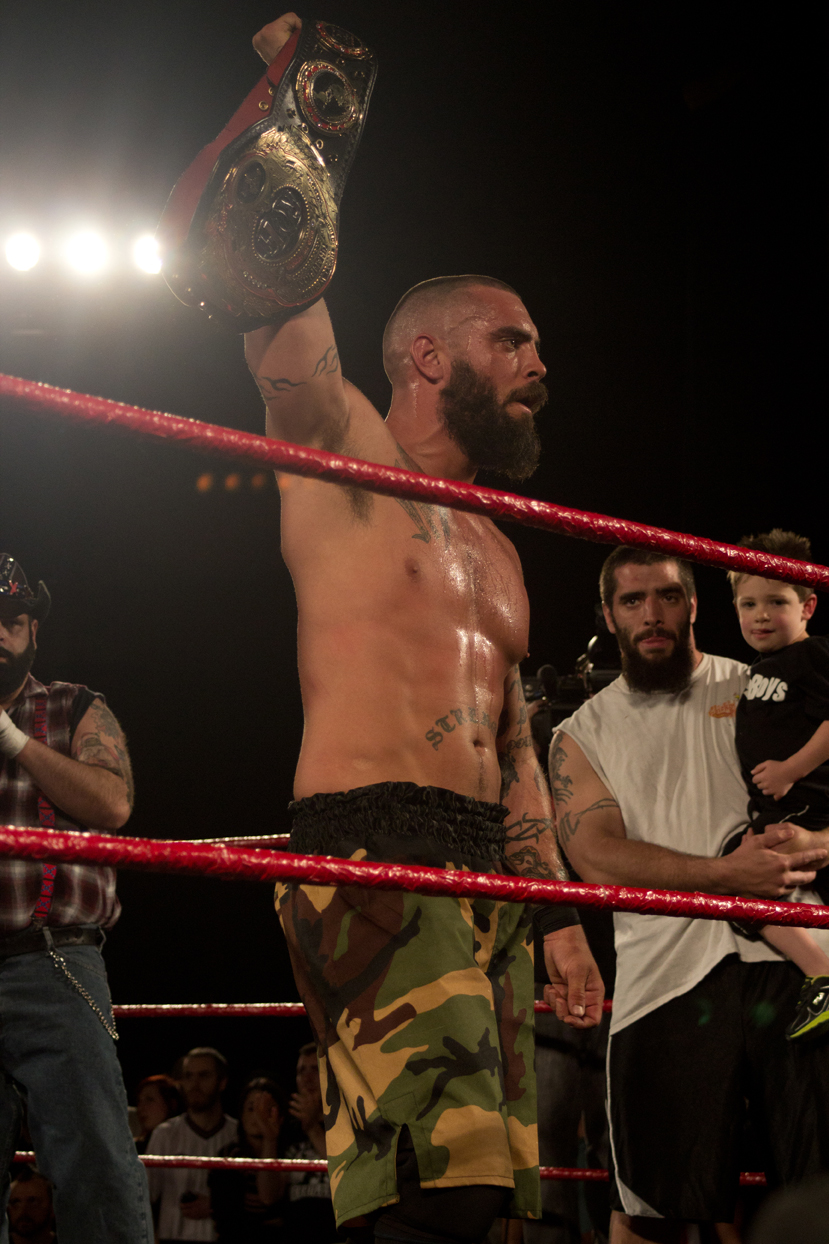 Jay Briscoe, with his brother Mark, with the ROH World Championship at Supercard of Honor VII.